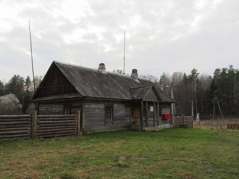 Museum of Yakub Kolas in Łastok, Stoŭbcy district, Belarus